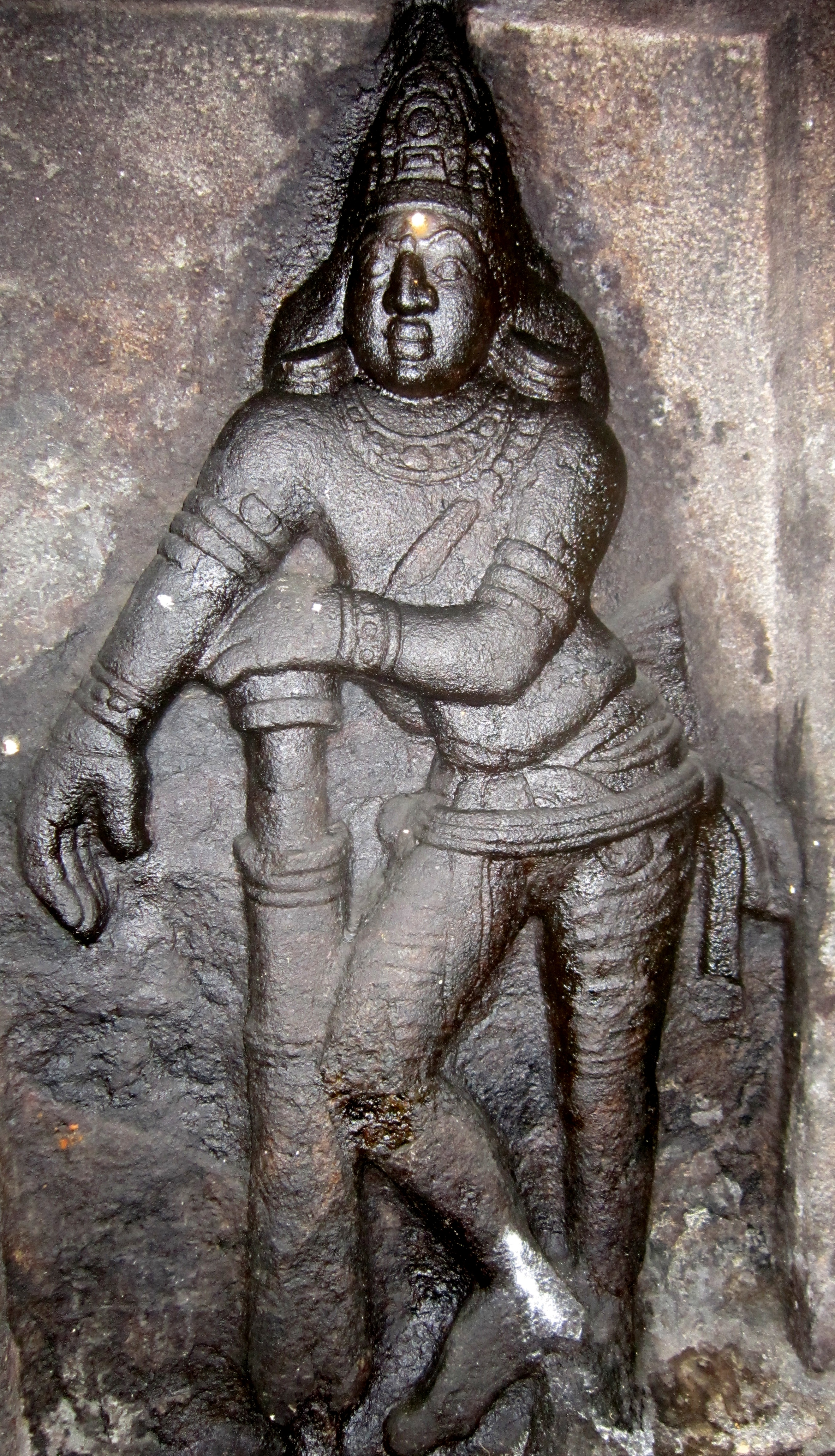 dvarapala